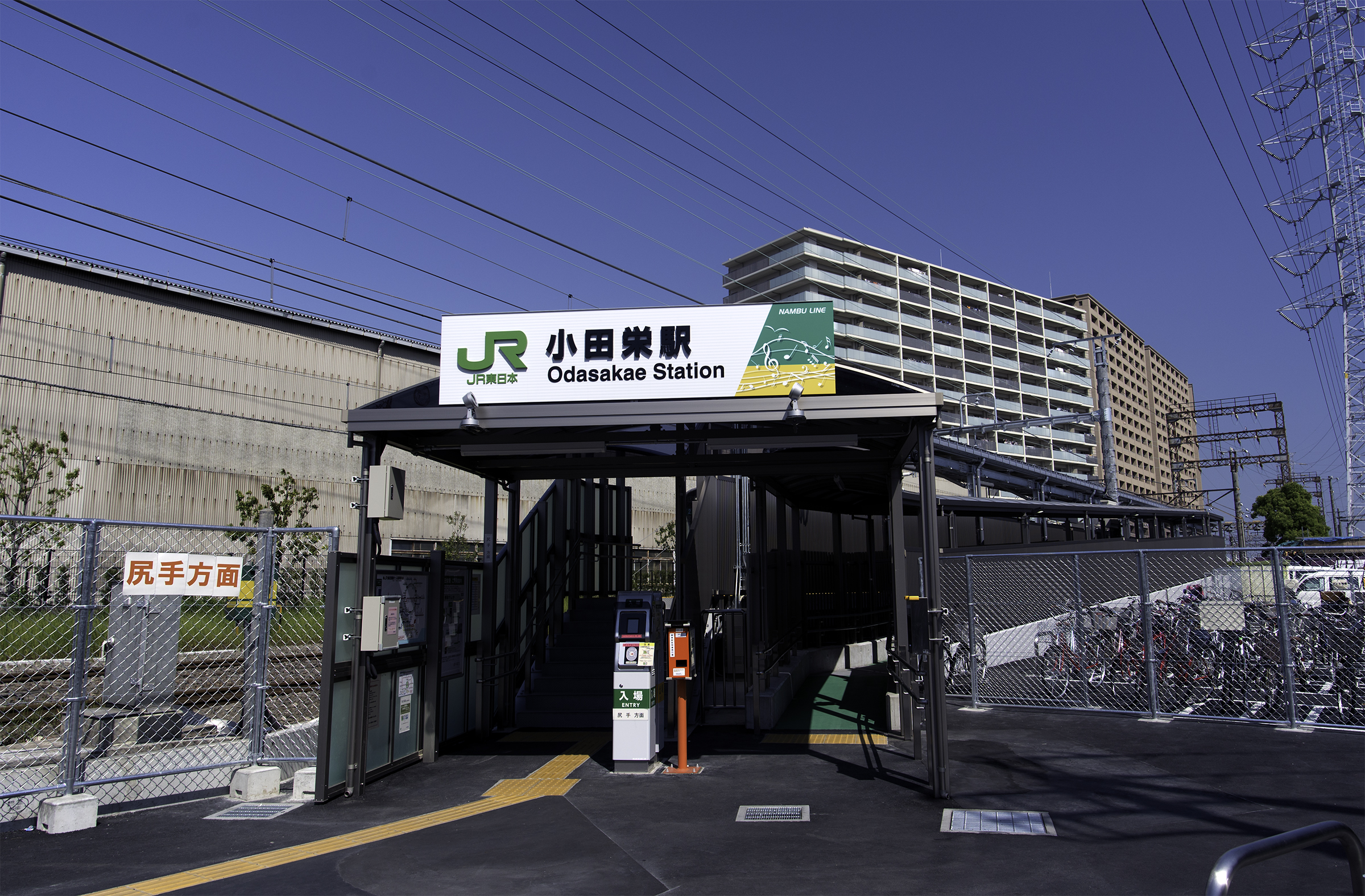 The entrance to the Shitte-bound platform (platform 2) at Odasakae Station on the Nambu Branchline in Kawasaki, Japan